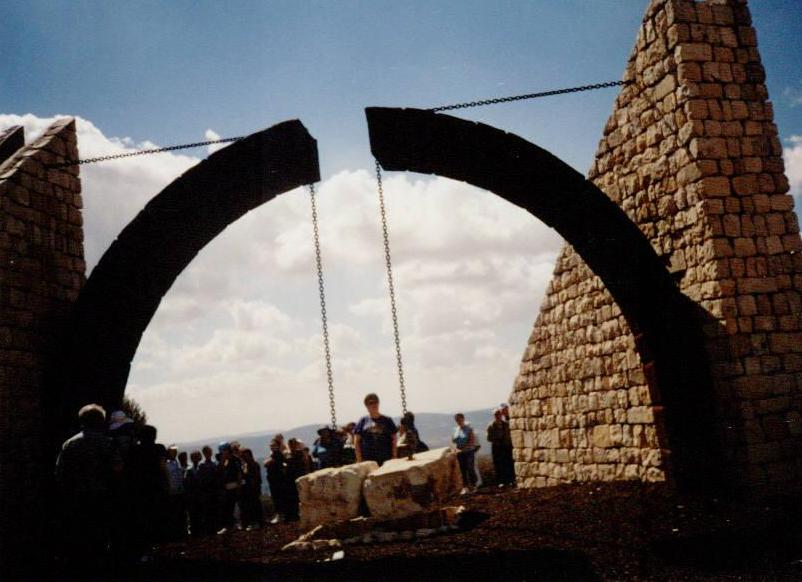 Geography of Israel